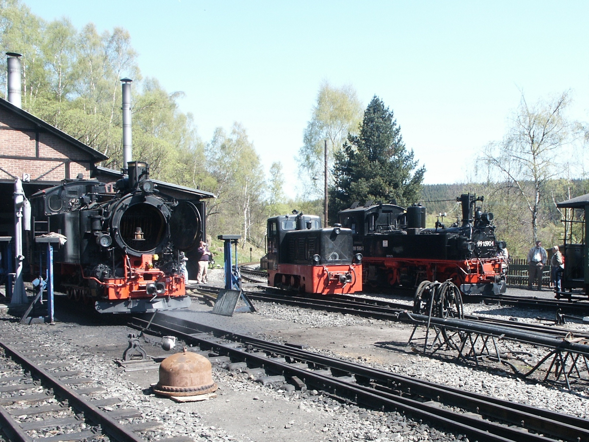 Narrow gauge locomotives VI K 99 1715-4, LKM V 10 C 250337 as 199 009-2 and IV K 99 1590-1 in Jöhstadt, Saxony